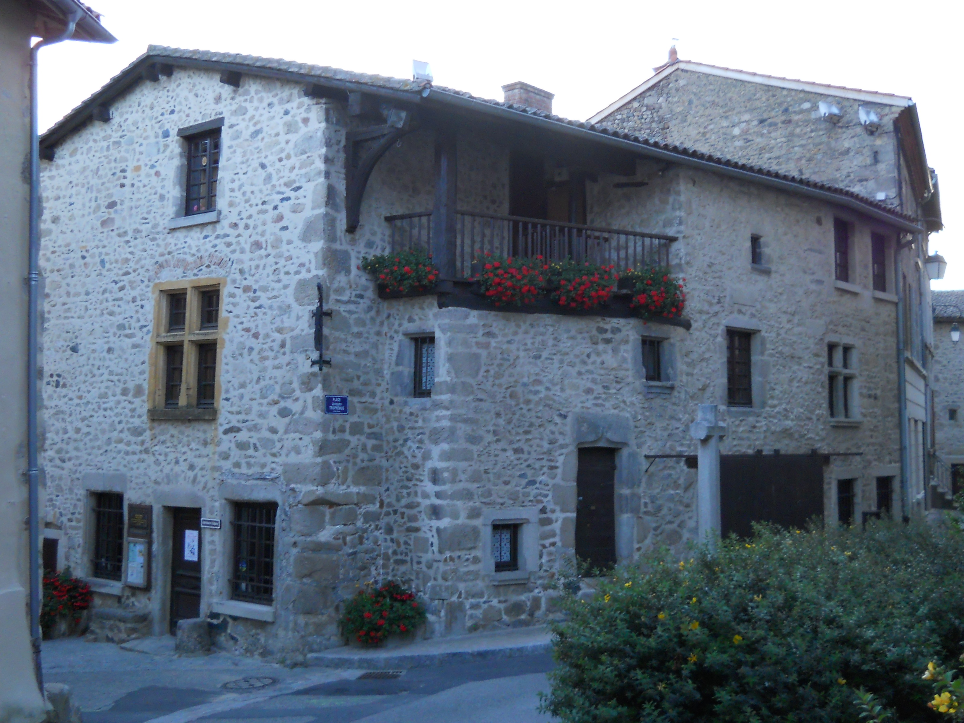 "Maison de pays", Mornant, Rhône, France